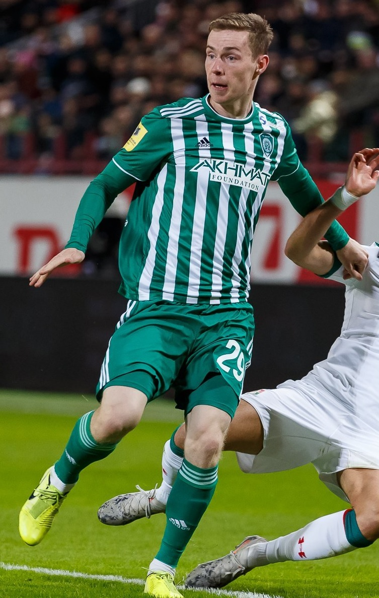 Vladimir Ilyin with FC Akhmat Grozny in a game against FC Lokomotiv Moscow.